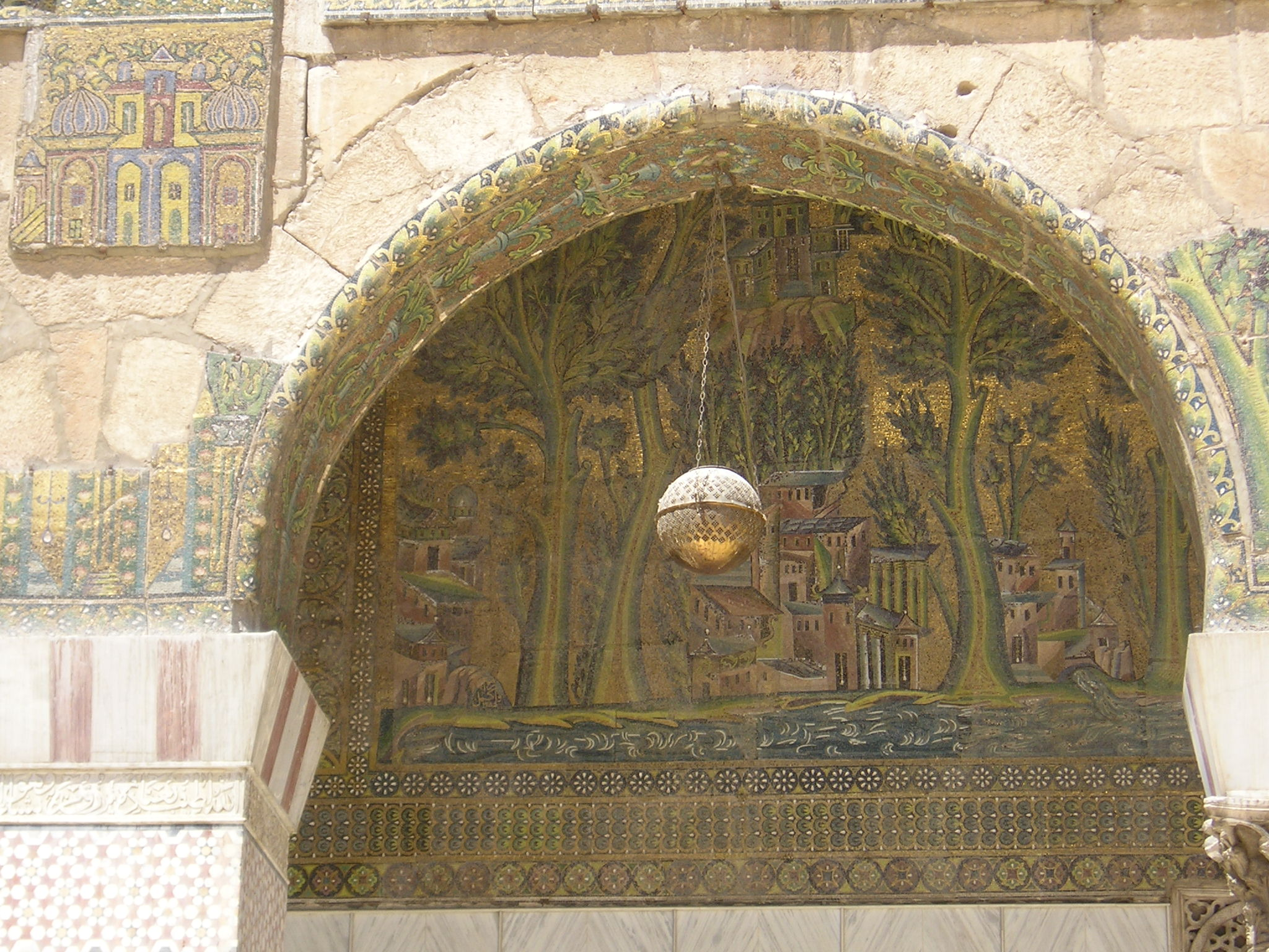 Damascus, Syria - Umayyad Mosque: a detail of mosaics at the western side of the courtyard.